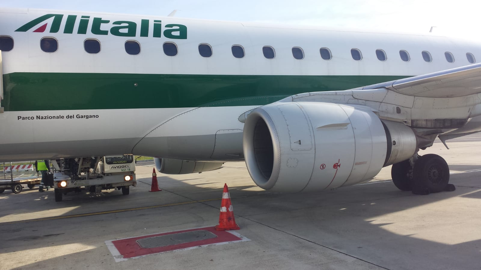 ALITALIA EMBRAER jet air-liner "Parco nazionale del Gargano" Roma Fiumicino airport january 2019